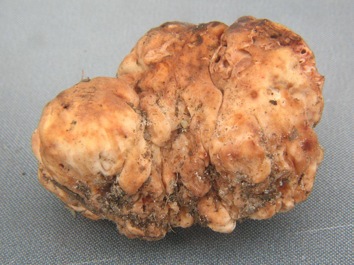 An ascocarp of the truffle-like fungus Hydnotrya tulasnei (Berk.) Berk. & Broome. Specimen collected in Hörnefors, Västerbotten, Sweden on 2007-08-12.